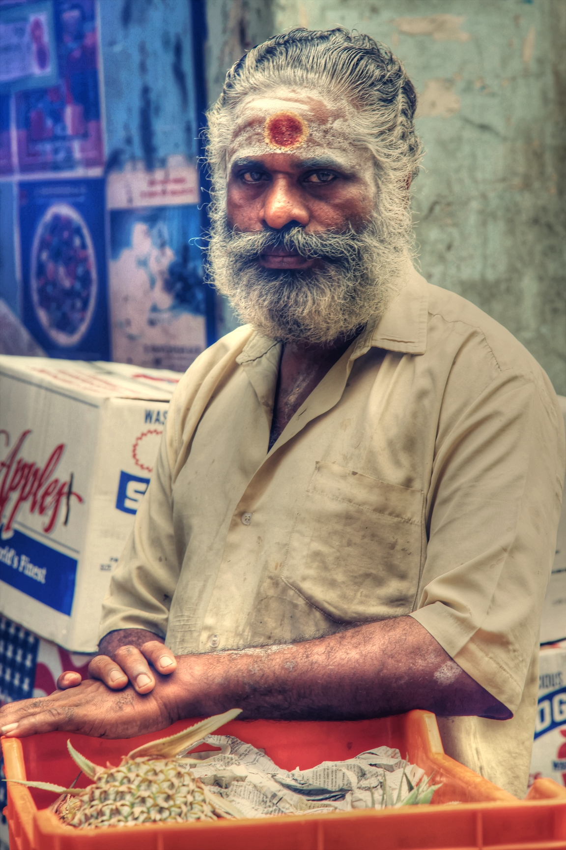 Sacred ash and red mark signify three Vedas, the A+U+M of Om symbol, three self (external, inner, universal), three Guna or qualities (Sattva, Rajas, Tamas); a Shaivism tradition.